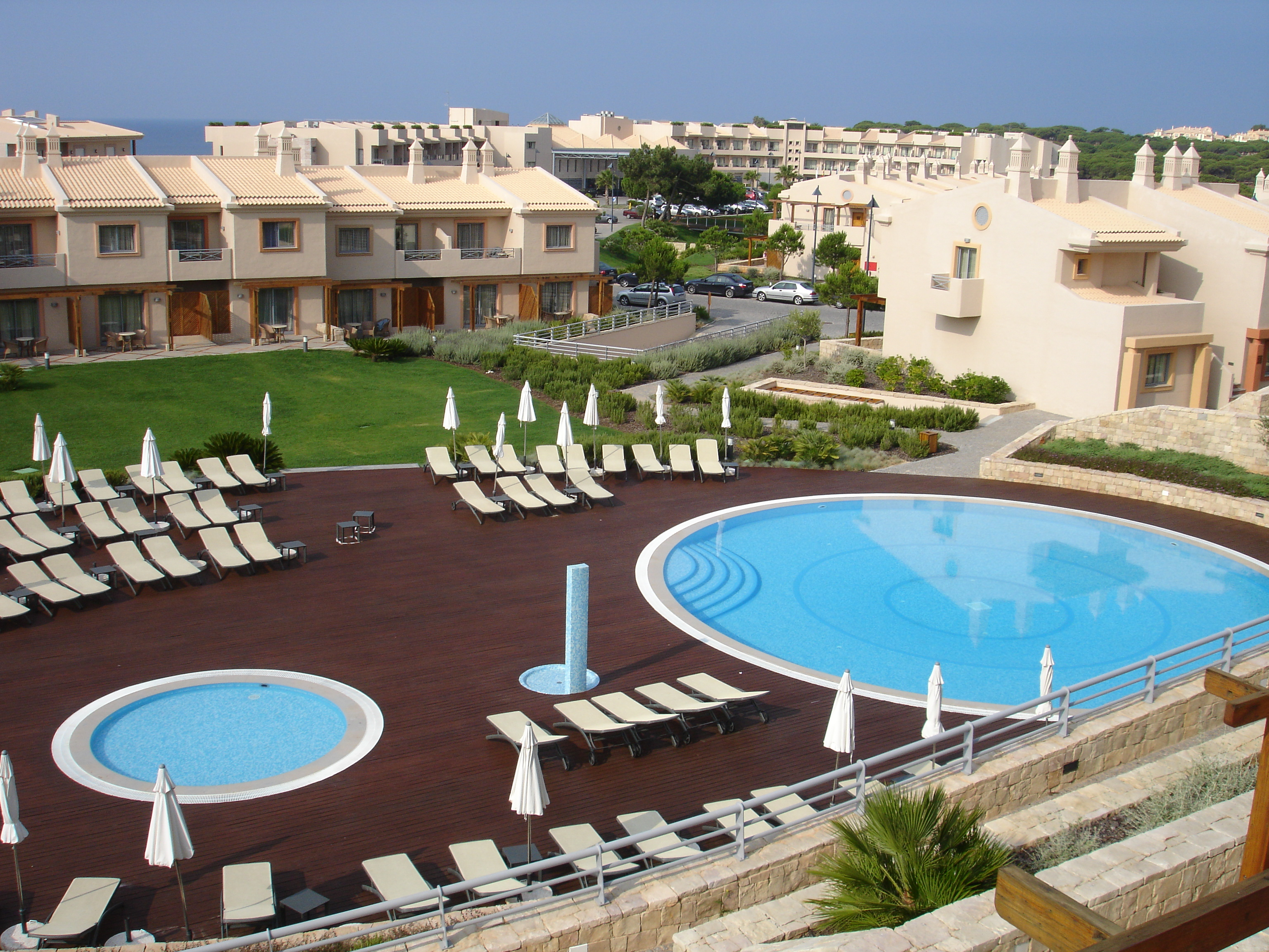 Grande Real Santa Eulália Resort & Hotel Spa